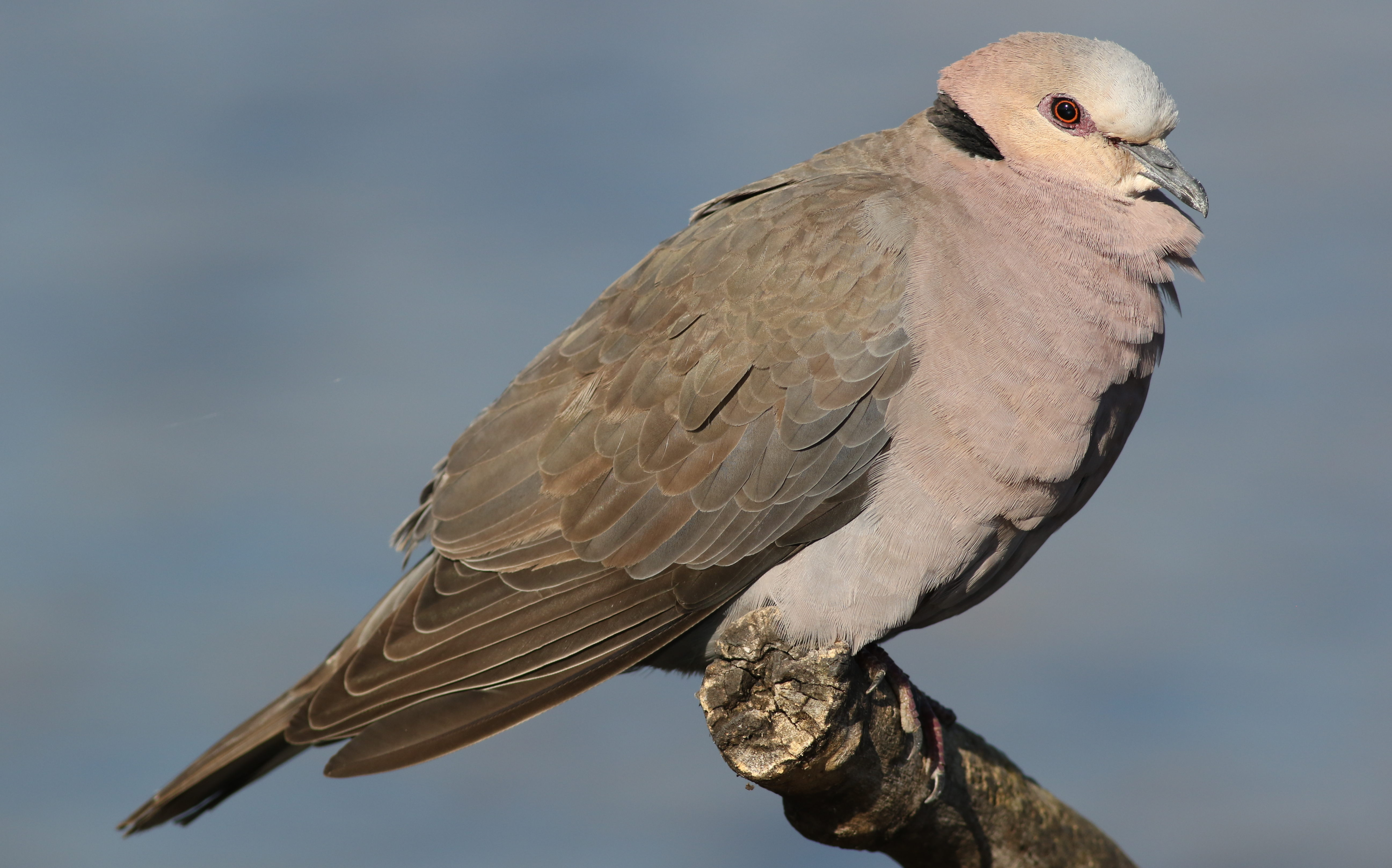 Red-eyed Dove, Streptopelia semitorquata at Marievale Nature Reserve, Gauteng, South Africa. A lovely bird, very common, and hardly every photographed because it is so common.